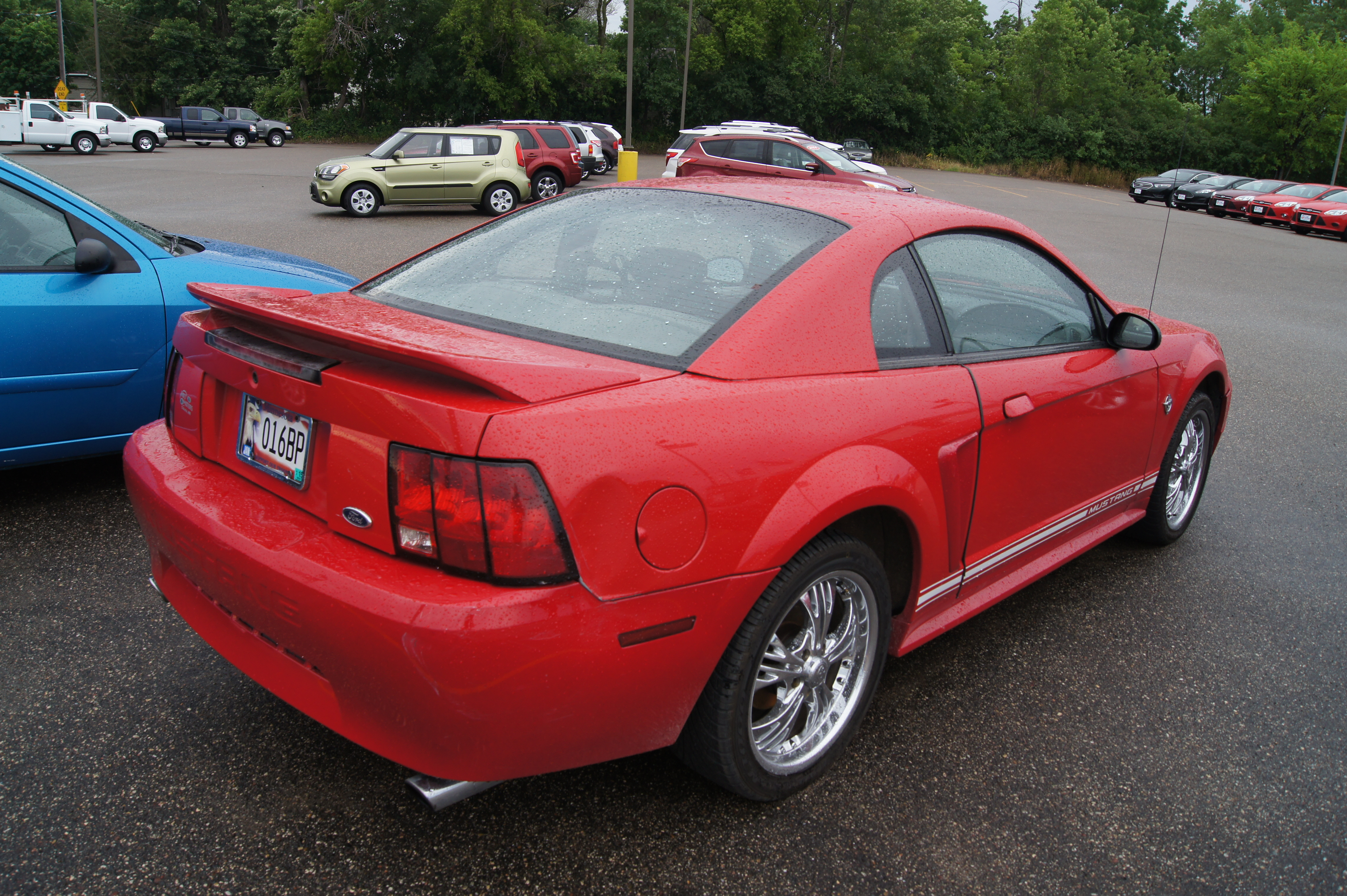 I bought my 2005 Dodge Magnum RT from Walser Chrysler Dodge in Hopkins. It came with free oil changes for life. I used to have relatives near the dealership that I would visit. They have all moved away, so now I just try to coordinate some car spotting for the trip. More Car Pictures